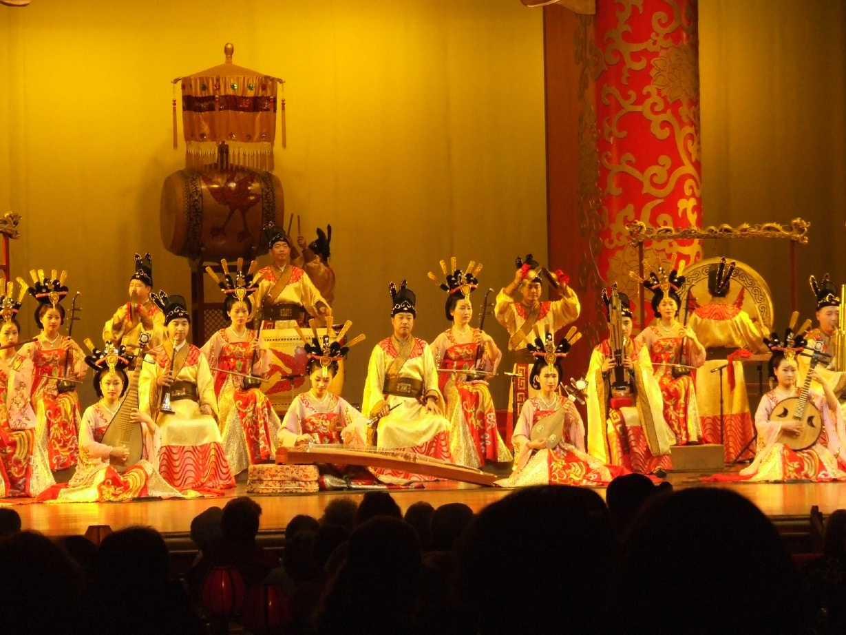 Traditional Chinese musical performance at Xi'an